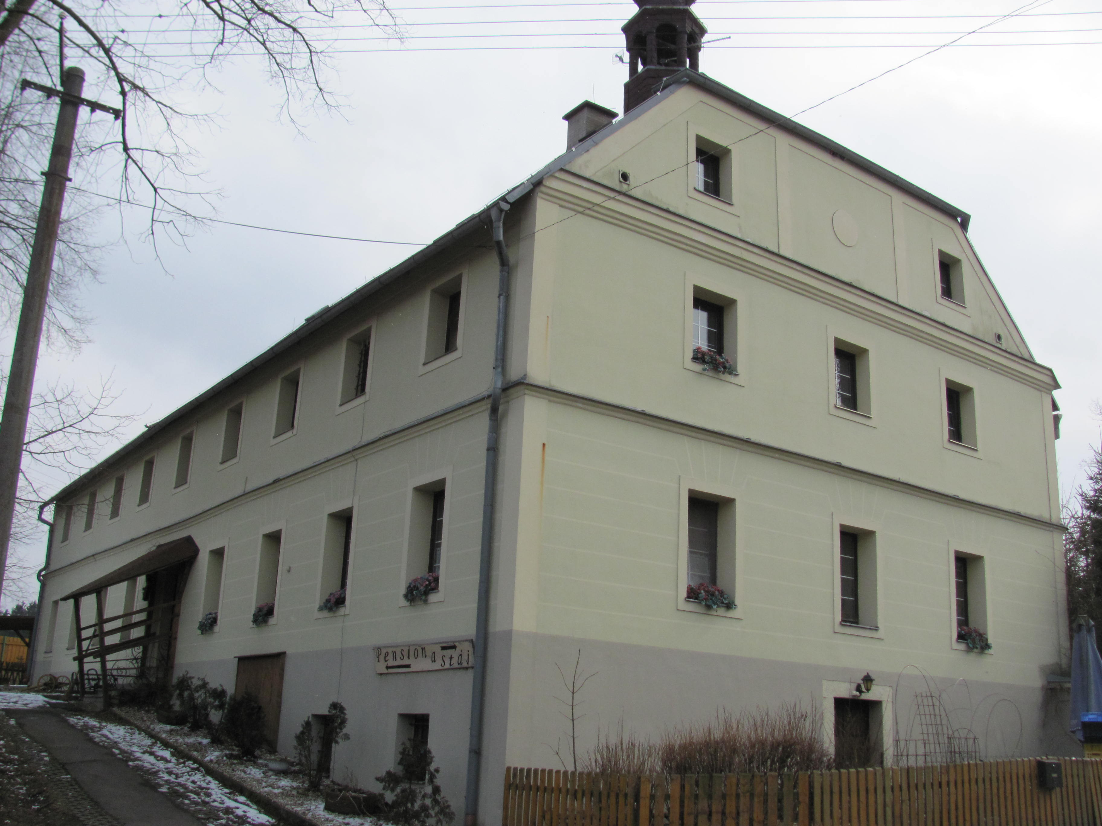 Old Chateau Děpoltovice 1 (Karlovy Vary District), cultural monument